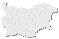 Map of Bulgaria, the red point is the position of Tsarevo.